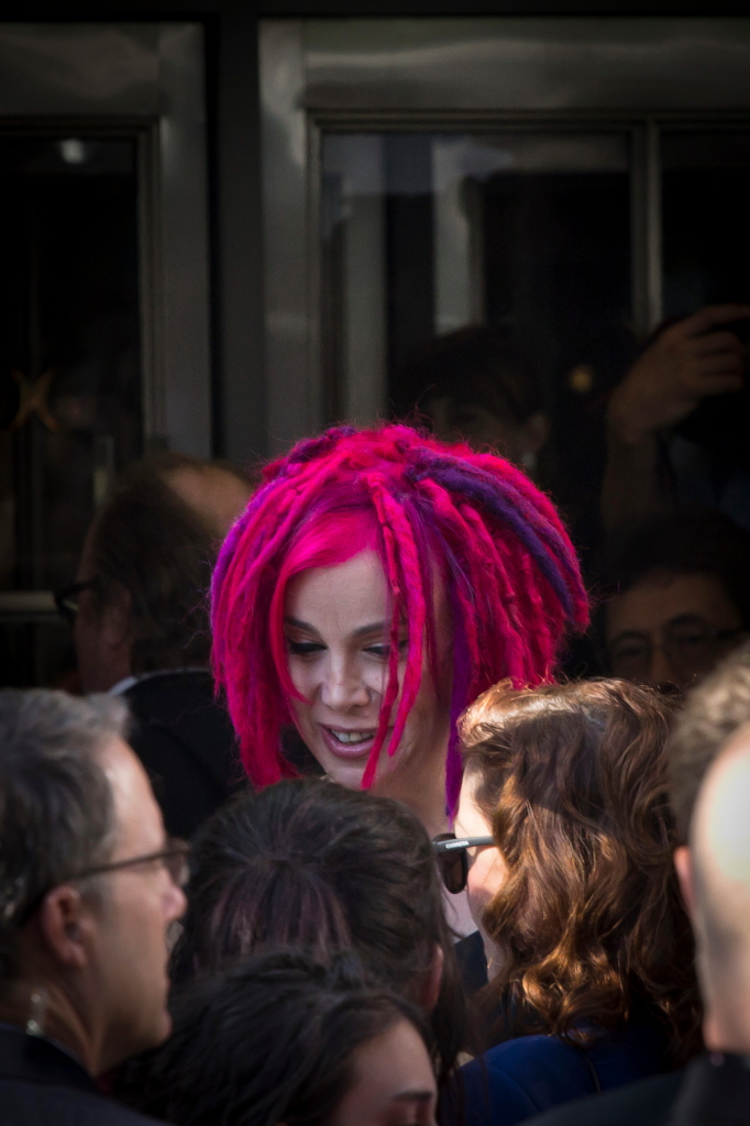 At the premiere of "Cloud Atlas", during the Toronto International Film Festival, 2012.